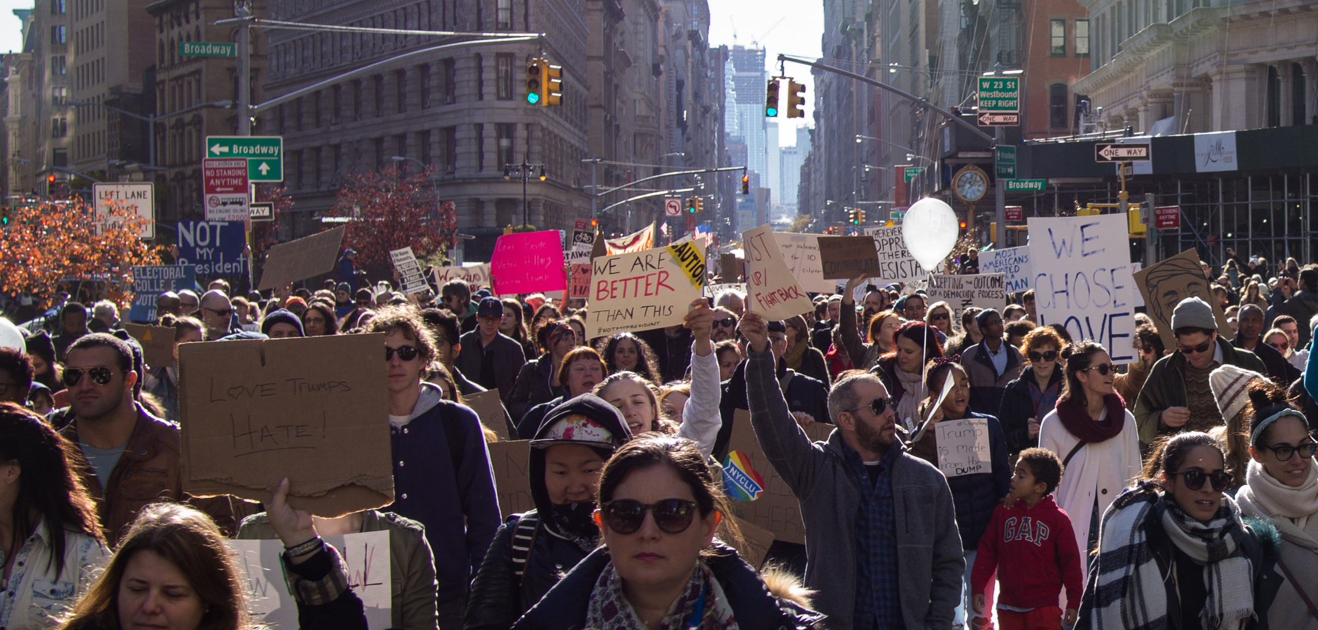 Protest against the presidency of Donald Trump in Manhattan on 12 November 2016. Thousands of protesters marched from Union Square to Trump Tower (about 40 blocks).